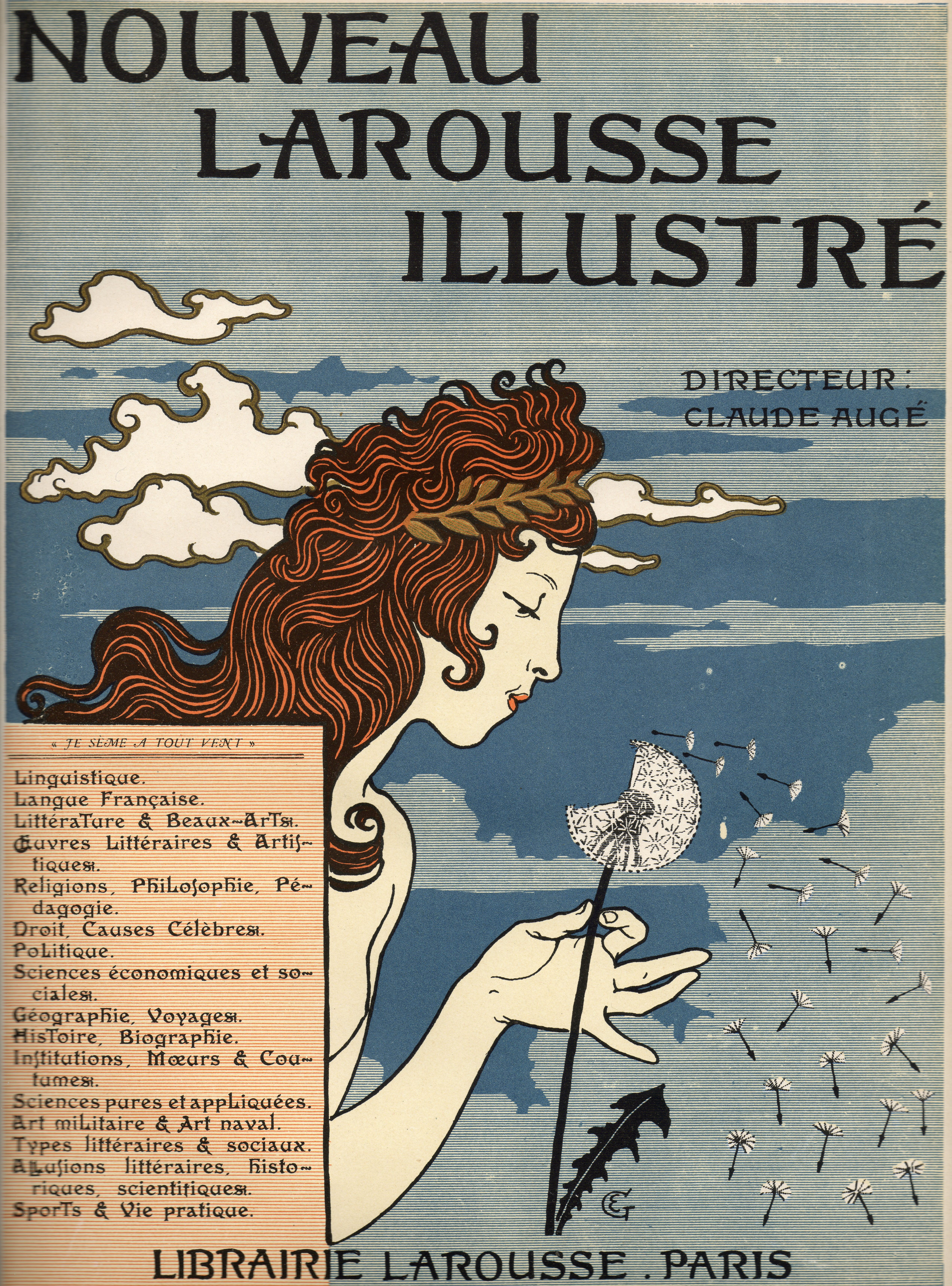 First page of the "New illustrated Larousse" (dictionary) 1897-1904 in 7 volumes with green leather binding.